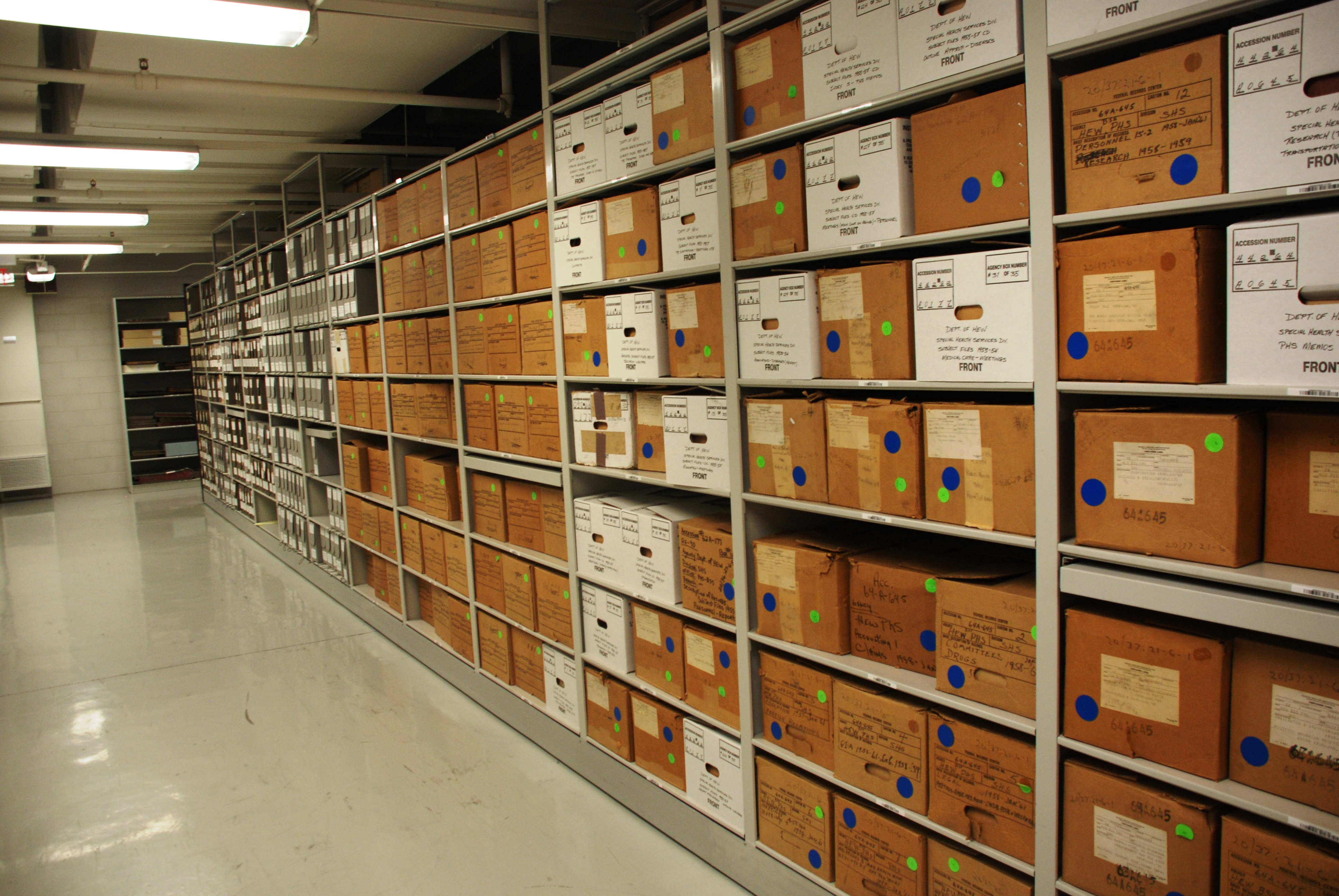 Backstage Pass Tour for Wikimedians at US National Archives at College Park.